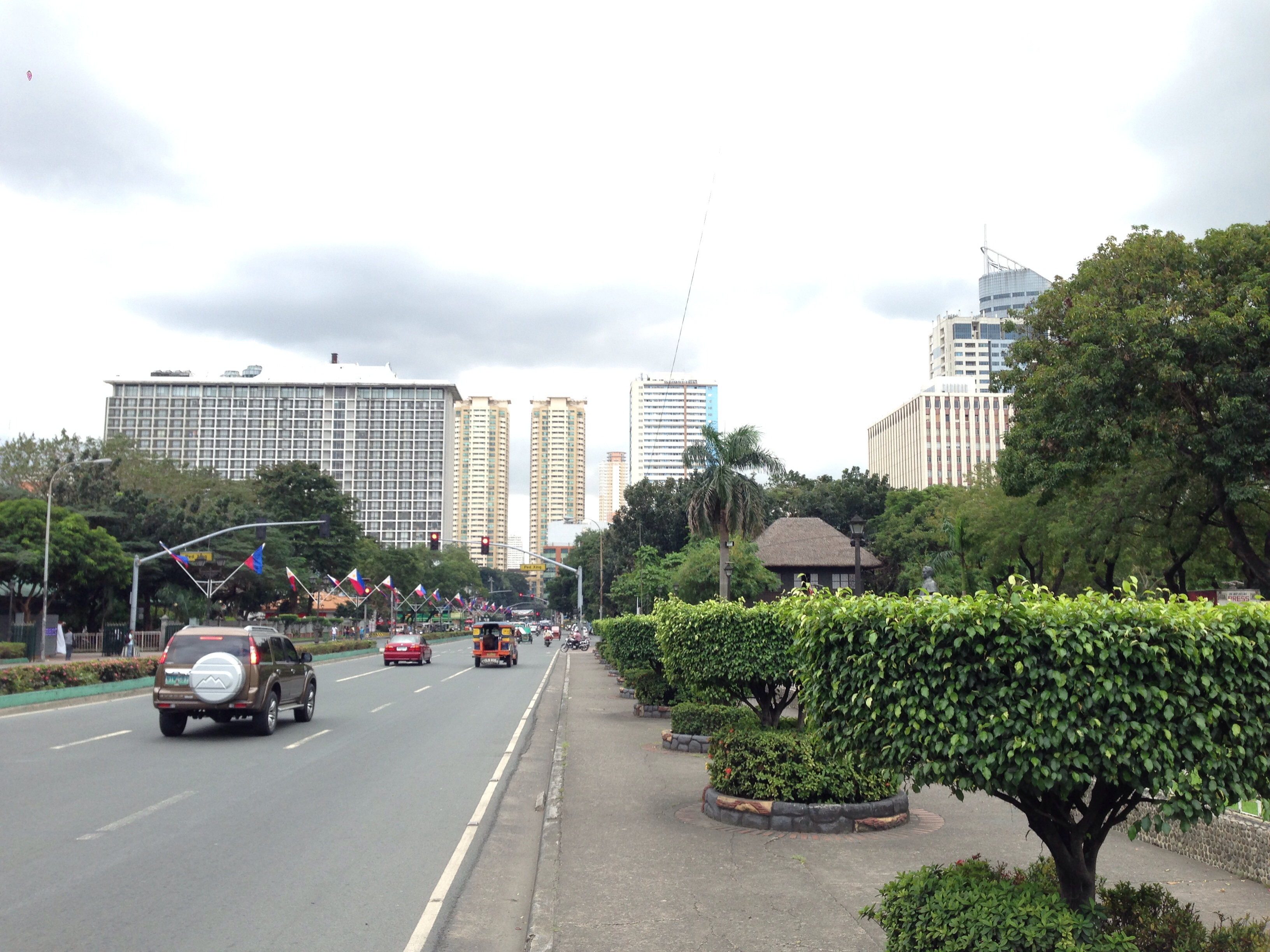 Maria Orosa Avenue, Rizal Park, Ermita, Manila